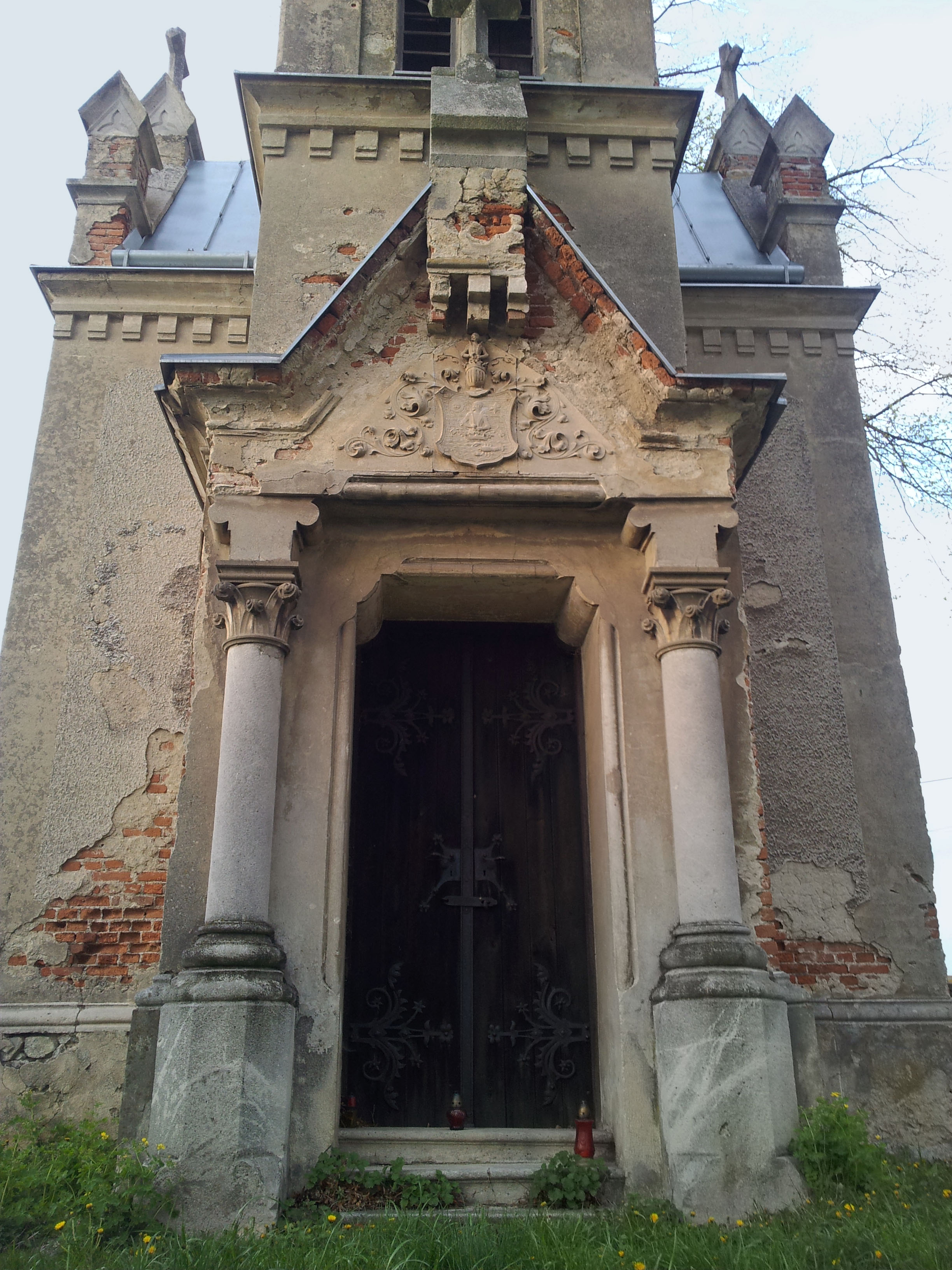 Neogothic Mausoleum of Rakovský family in Rakovo, Slovakia